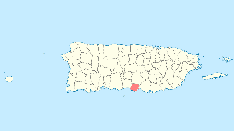 Municipal locator of Puerto Rico